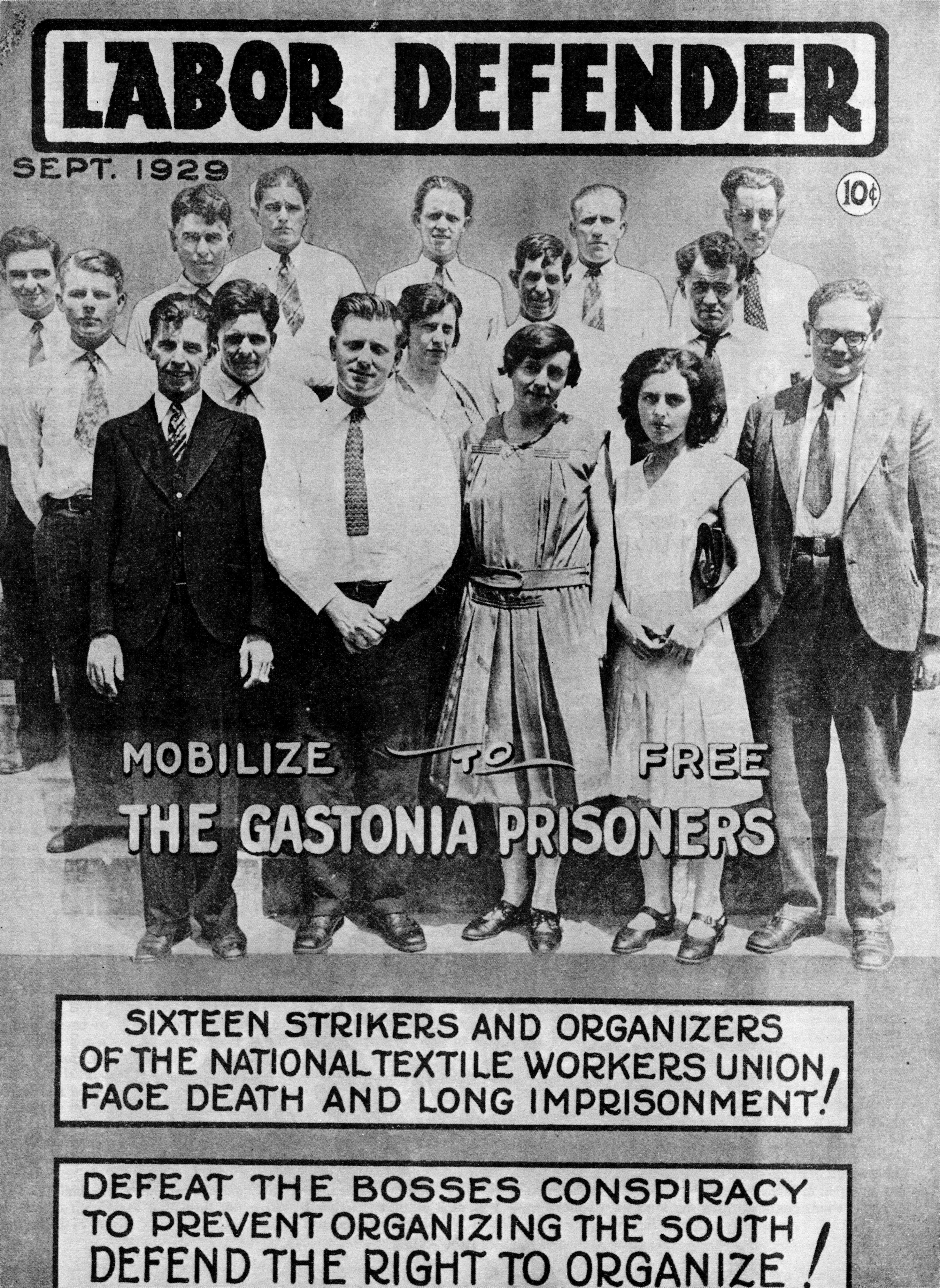 On April 4, 1929, the National Guard was called out to end strikes at the Loray Mill in Gastonia, NC. This image, N_98_9_180, depicts Gastonia Mill workers imprisoned for striking, published on cover of the September 1929 "Labor Defender" (Nell Battle Lewis Papers, PC.255.30), State Archives of North Carolina, Raleigh, NC.